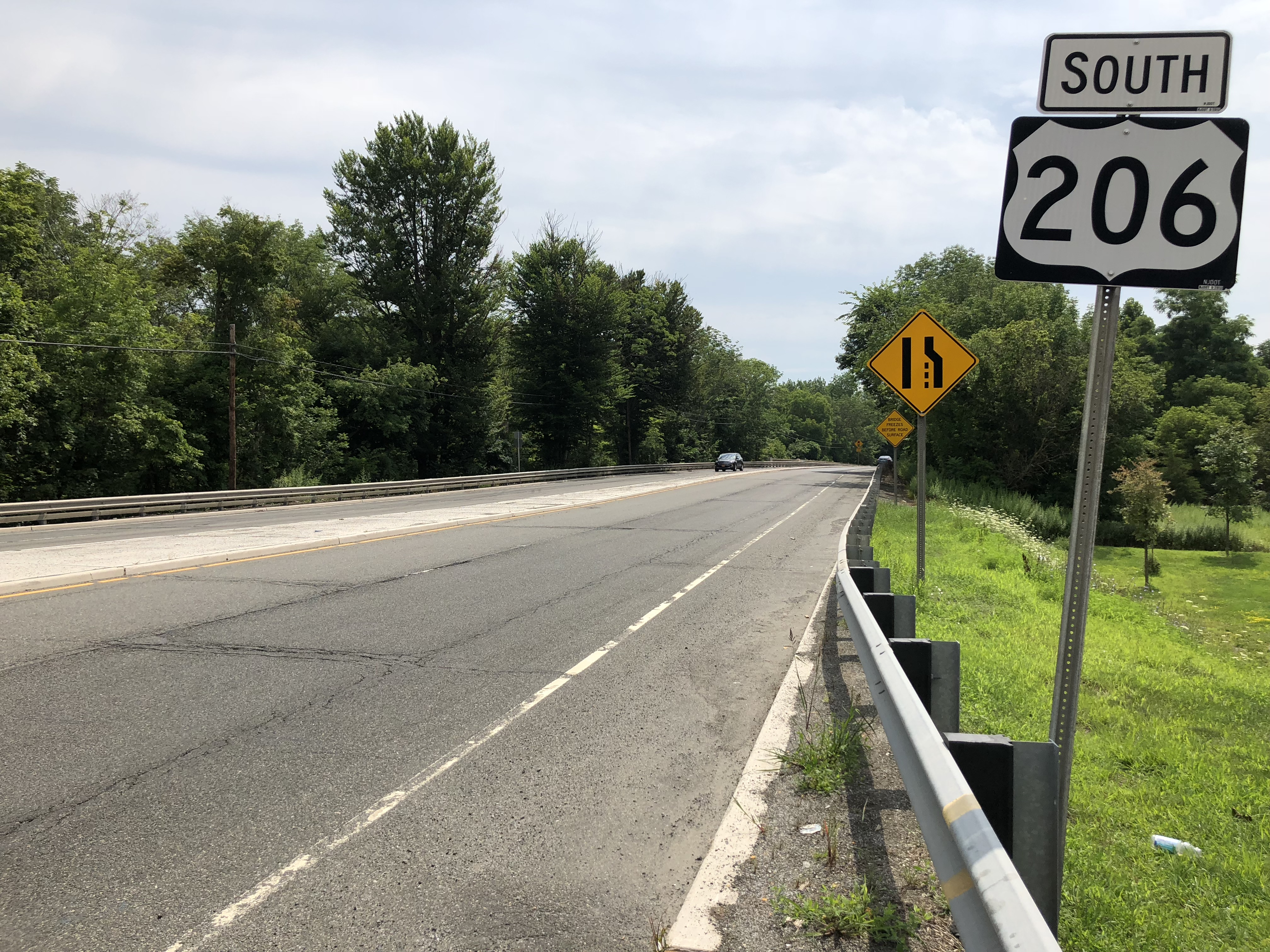 View south along U.S. Route 206 just south of Sussex County Route 519 (Newton Avenue) in Branchville, Sussex County, New Jersey